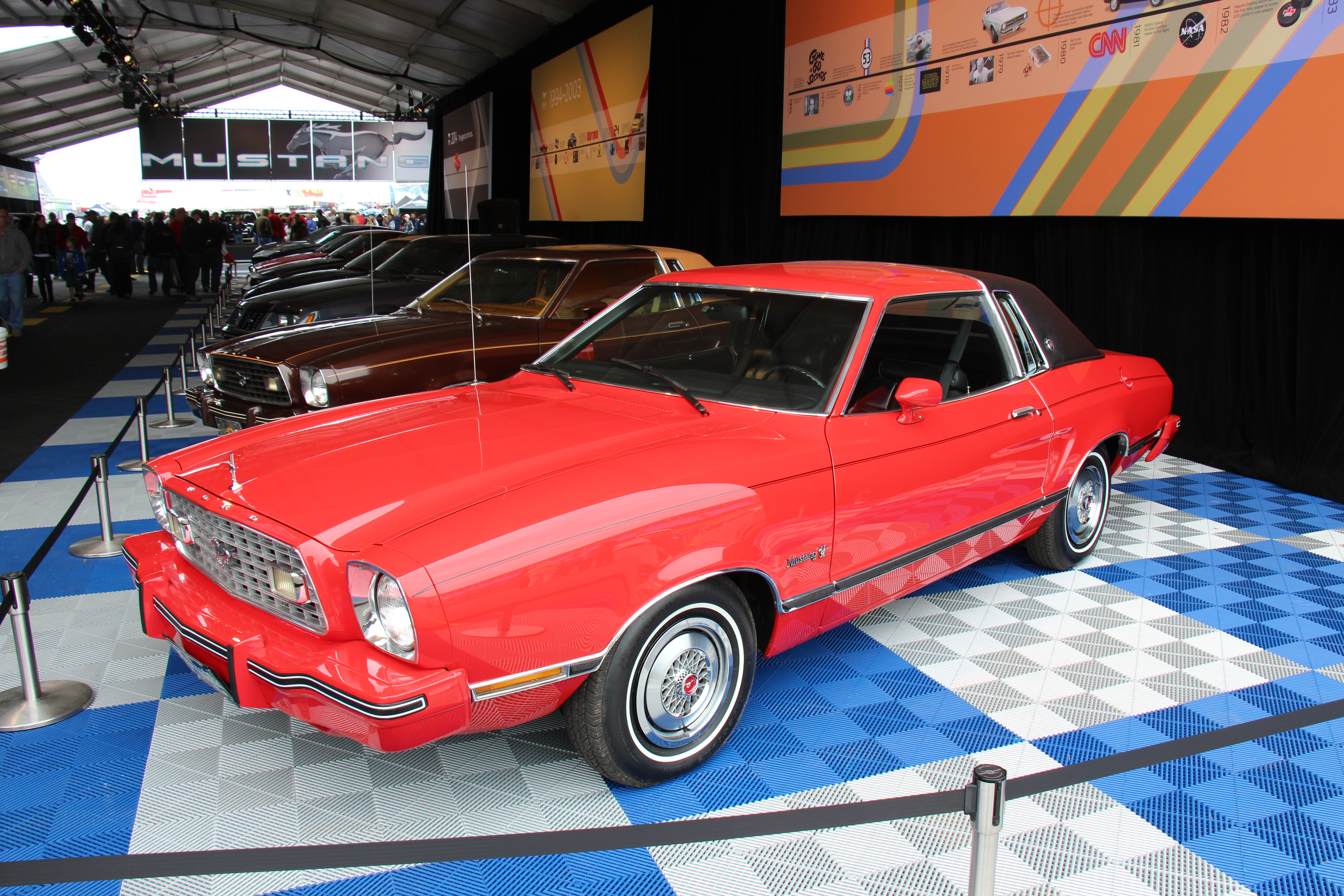 Bright Red. The 1974-78 2nd generation Mustang followed world trends influenced by the oil crisis etc and was a smaller car again. In 1974, only available with a 140 cu in 4 cyl or 171 cu in V6. The engine bay was modified and the V8 brought back in 1975, as the oil crisis started to ease. In 1974, the Mustang II packages ranged from the base Hardtop, 2+2 hatchback, a Ghia luxury group with vinyl roof, and a top of the line V6-powered Mach 1 Photographed at the 50th Anniversary of the Mustang celebrations at the Charlotte Motor Speedway, April 2014